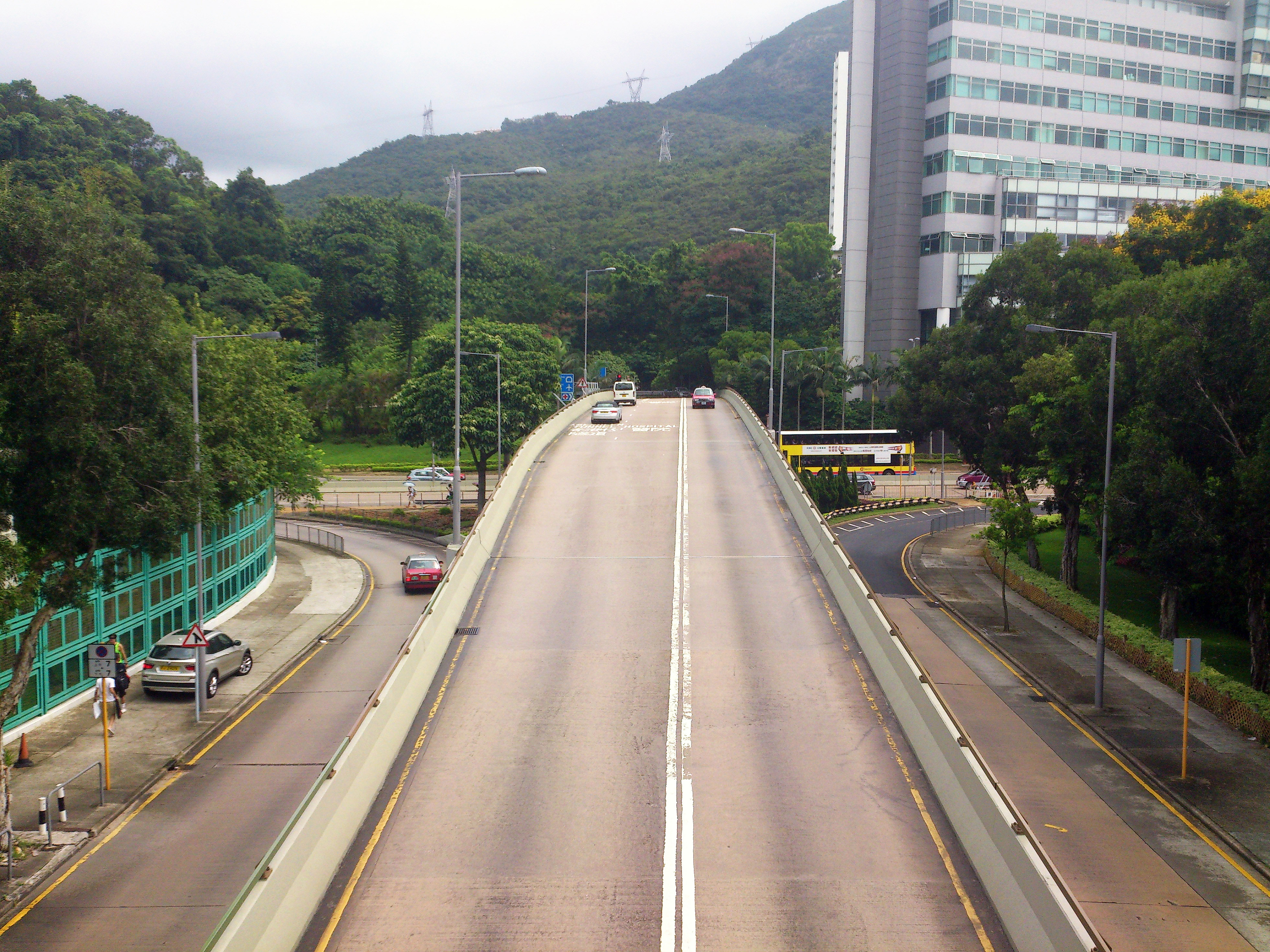 Ocean Park Road Flyover south end